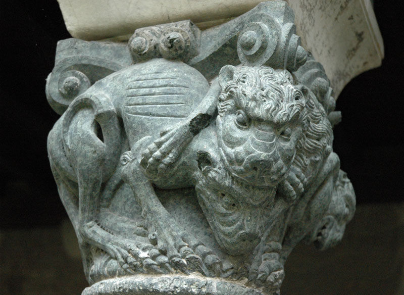 Master of Cabestant. Capital. Cloister, cathedral of Prato. Italy